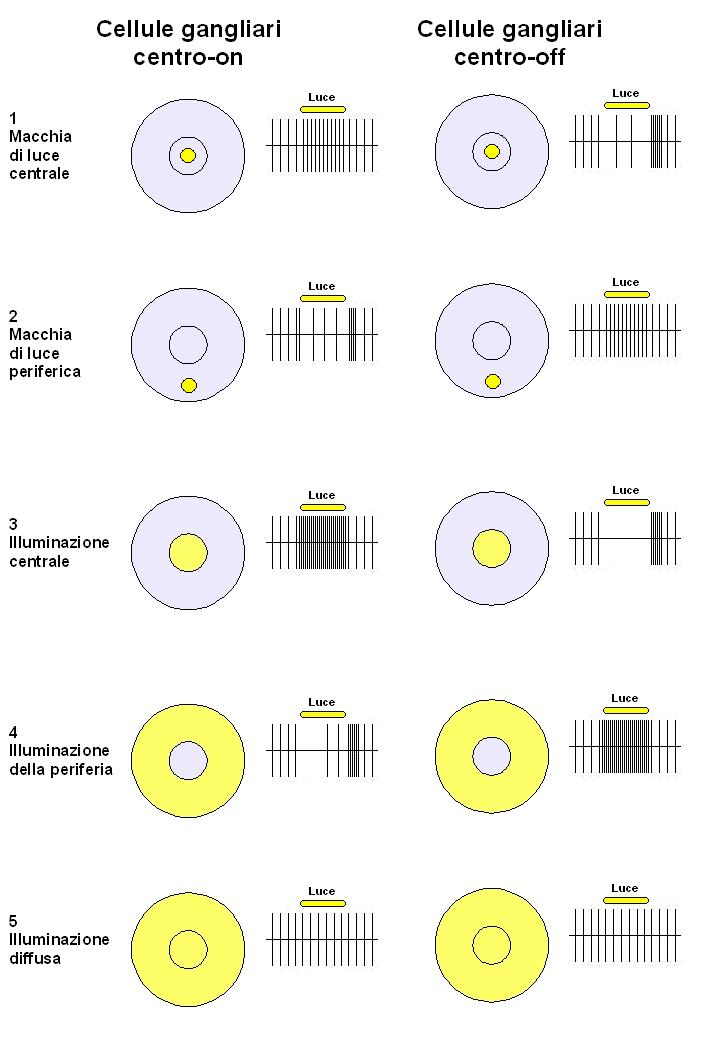 Answers produced for the same type of light stimulus that invests the receptive field of a cell Gangliare Centro-on and a cell Gangliare Centro-off. The response of cells gangliari is assessed by number of potential action per second, illustrated to the right of receptive fields.